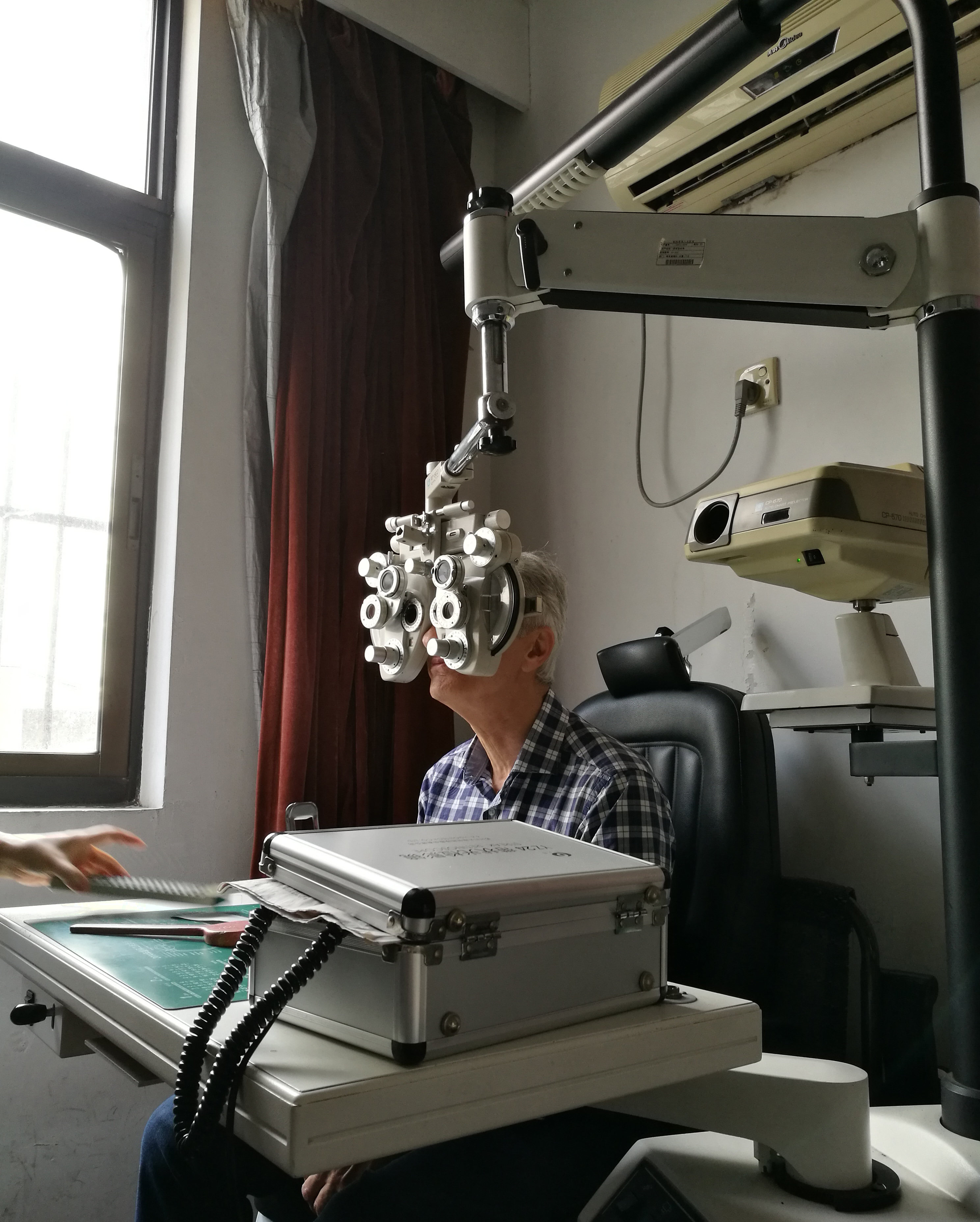 Patient undergoing an examination to determine visual acuity at a hospital. (Optometry equipment: Canon Medical Systems)